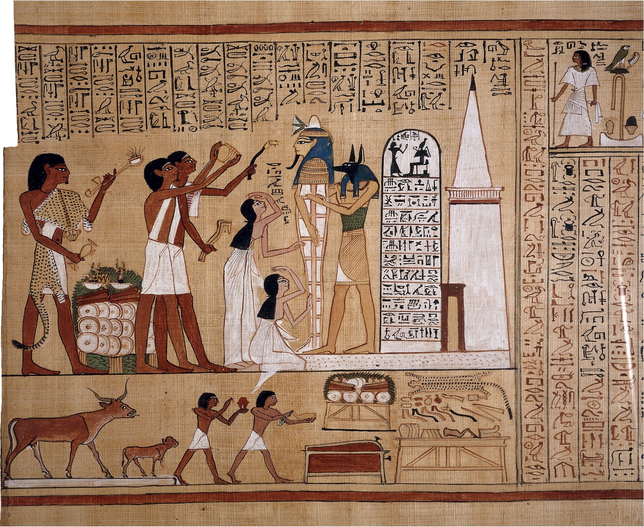 This is an excellent example of one of the many fine vignettes (illustrations) from the Book of the Dead of Hunefer. The centrepiece of the upper scene is the mummy of Hunefer, shown supported by the god Anubis (or a priest wearing a jackal mask). Hunefer's wife and daughter mourn, and three priests perform rituals. The two priests with white sashes are carrying out the Opening of the Mouth ritual. The white building at the right is a representation of the tomb, complete with portal doorway and small pyramid. Both these features can be seen in real tombs of this date from Thebes. To the left of the tomb is a picture of the stela which would have stood to one side of the tomb entrance. Following the normal conventions of Egyptian art, it is shown much larger than normal size, in order that its content (the deceased worshipping Osiris, together with a standard offering formula) is absolutely legible. At the right of the lower scene is a table bearing the various implements needed for the Opening of the Mouth ritual. At the left is shown a ritual, where the foreleg of a calf, cut off while the animal is alive, is offered. The animal was then sacrificed. The calf is shown together with its mother, whose bellowing mouth might be interpreted as a sign of distress at hearing its offspring screaming in pain.